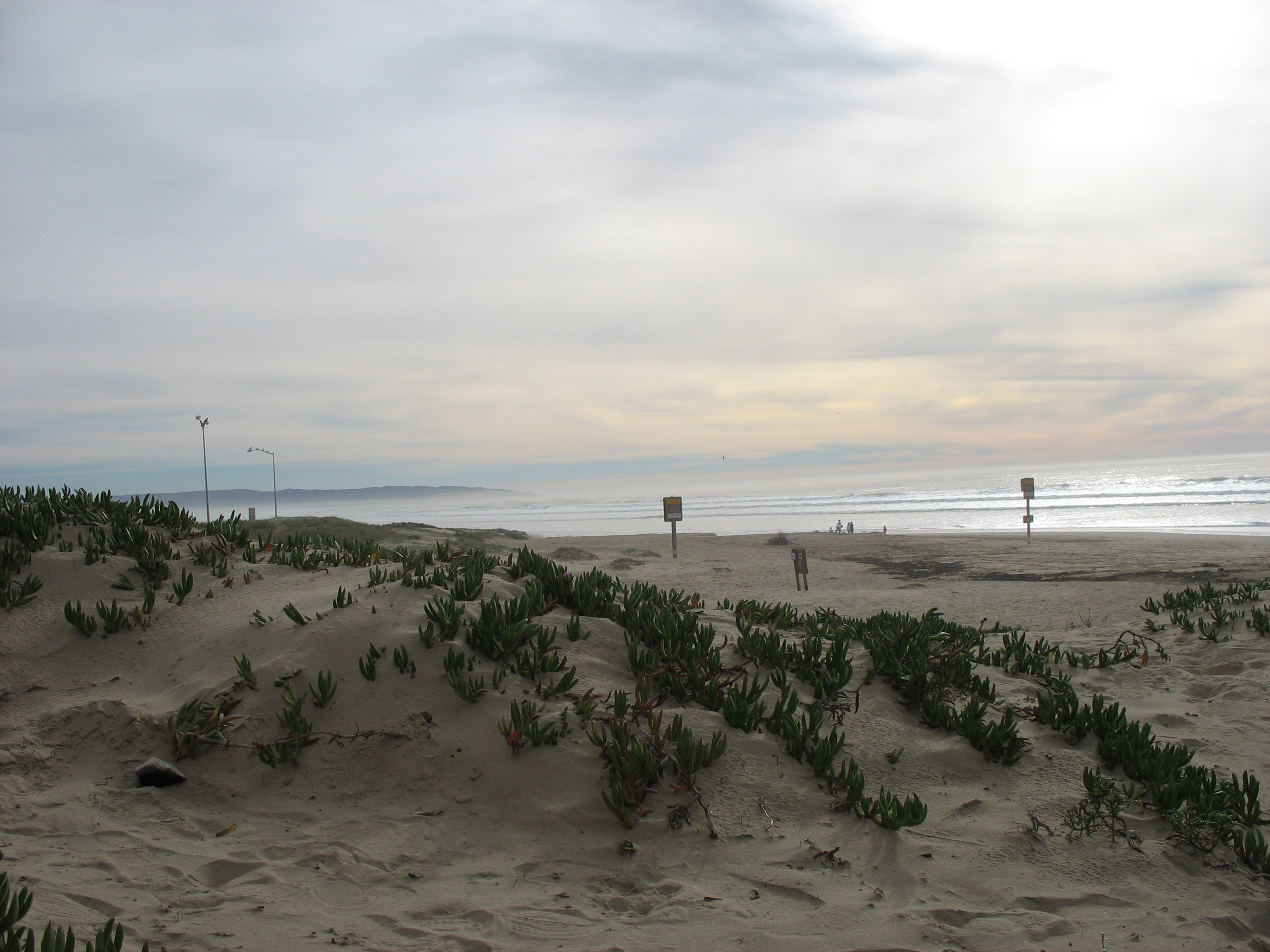 View of the Pacific Ocean from Oceano, California (north tip of Guadalupe-Nipomo Dune complex). In the foreground is ice plant (Carpobrotus edulis), which is a high-threat invasive species that threatens the native plants in the dunes.